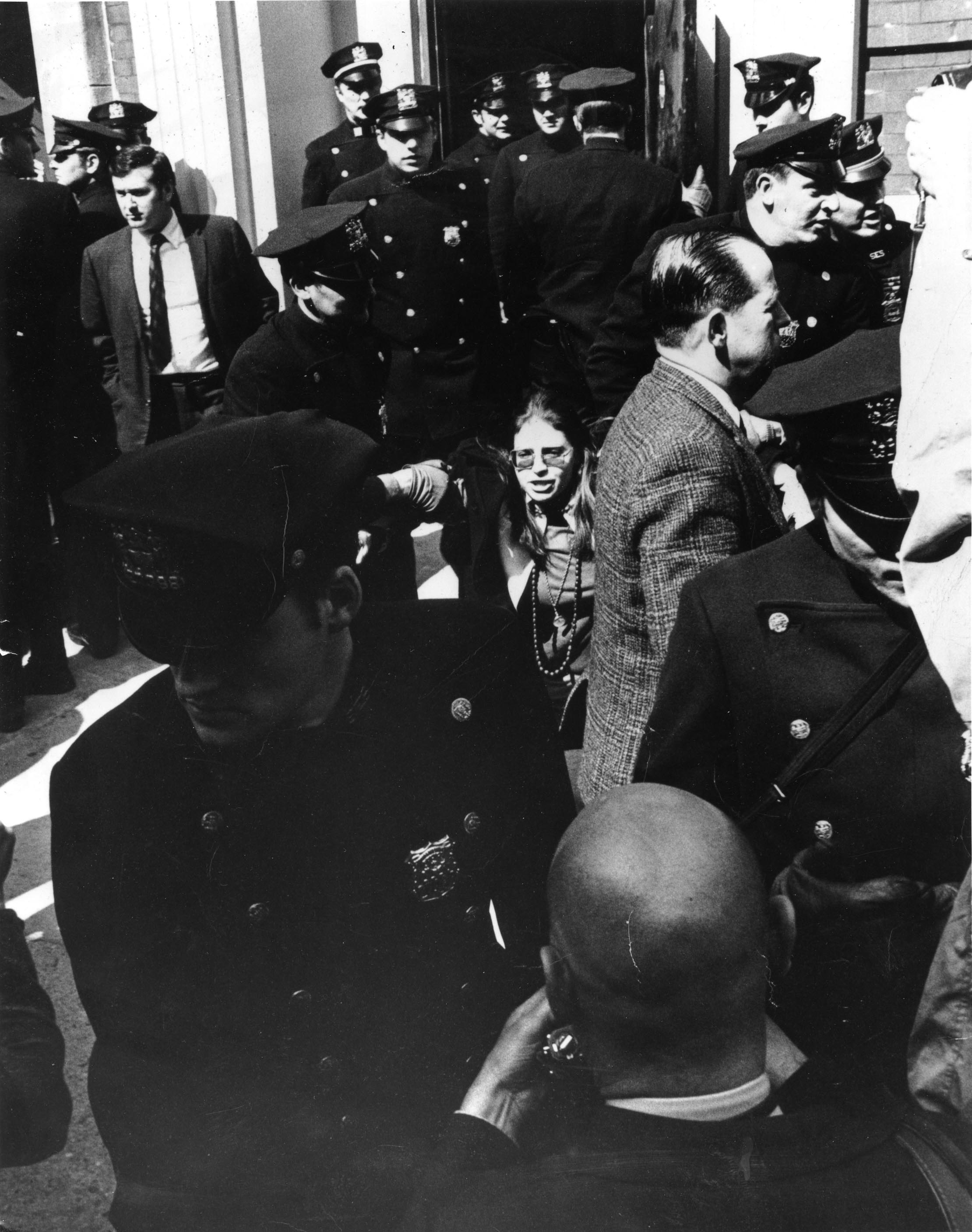 Activist Robin Morgan being arrested during a sit-in to protest Grove Press union-busting practices.